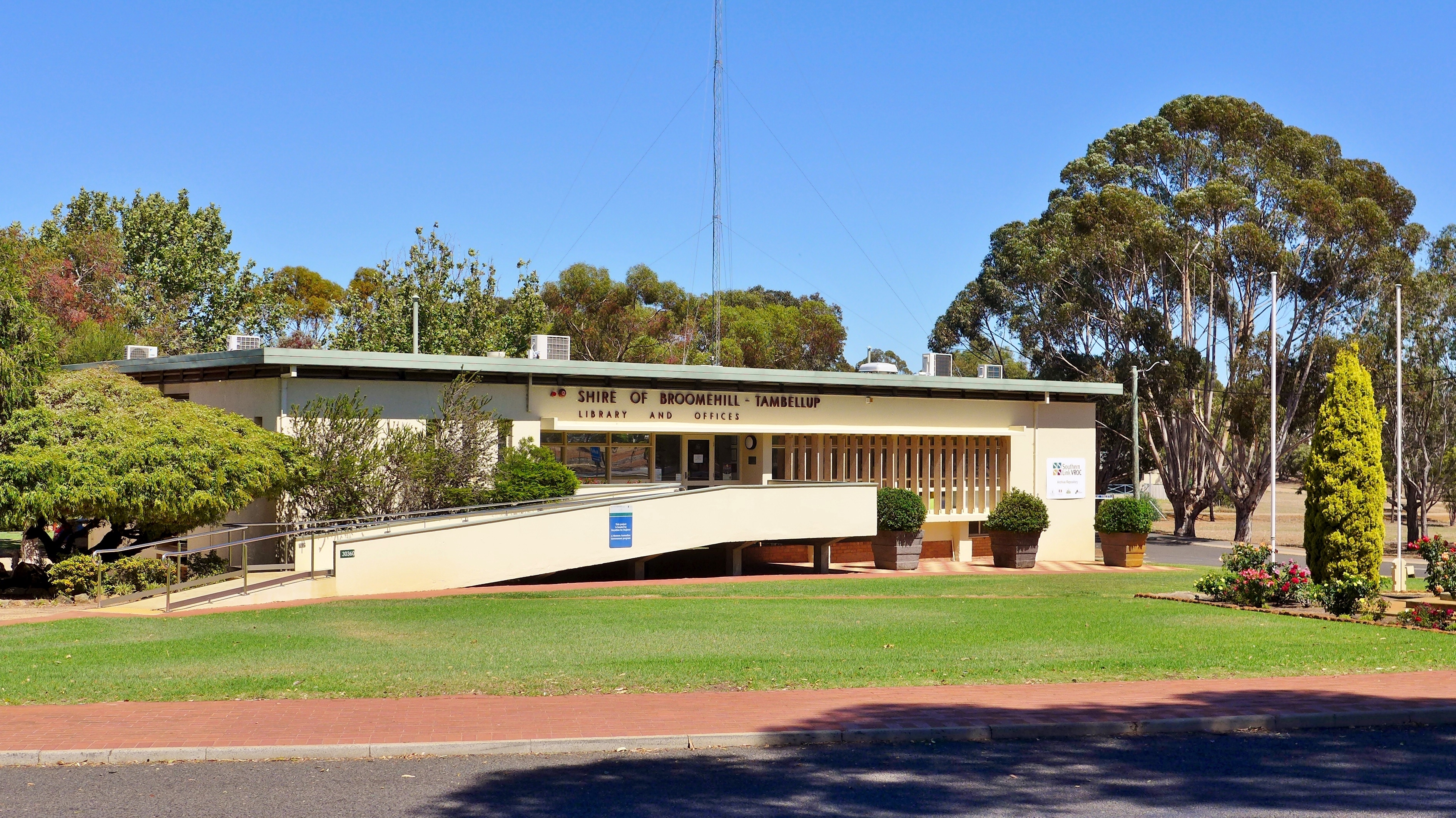 View of the Shire of Broomehill-Tambellup library and offices in Broomehill, Western Australia (previously the offices of the former Shire of Broomehill)